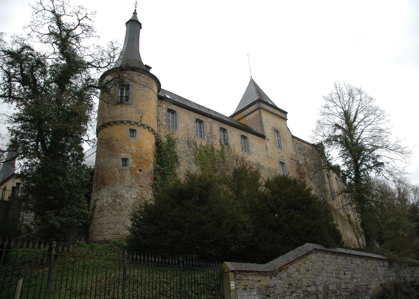 Villers-sur-Lesse Castle in Belgium